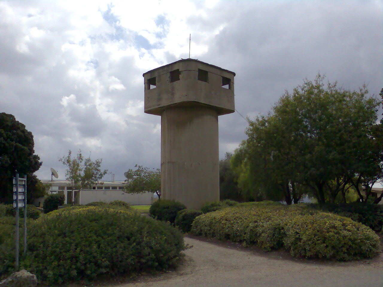 The water tower in Kibbutz Alonim